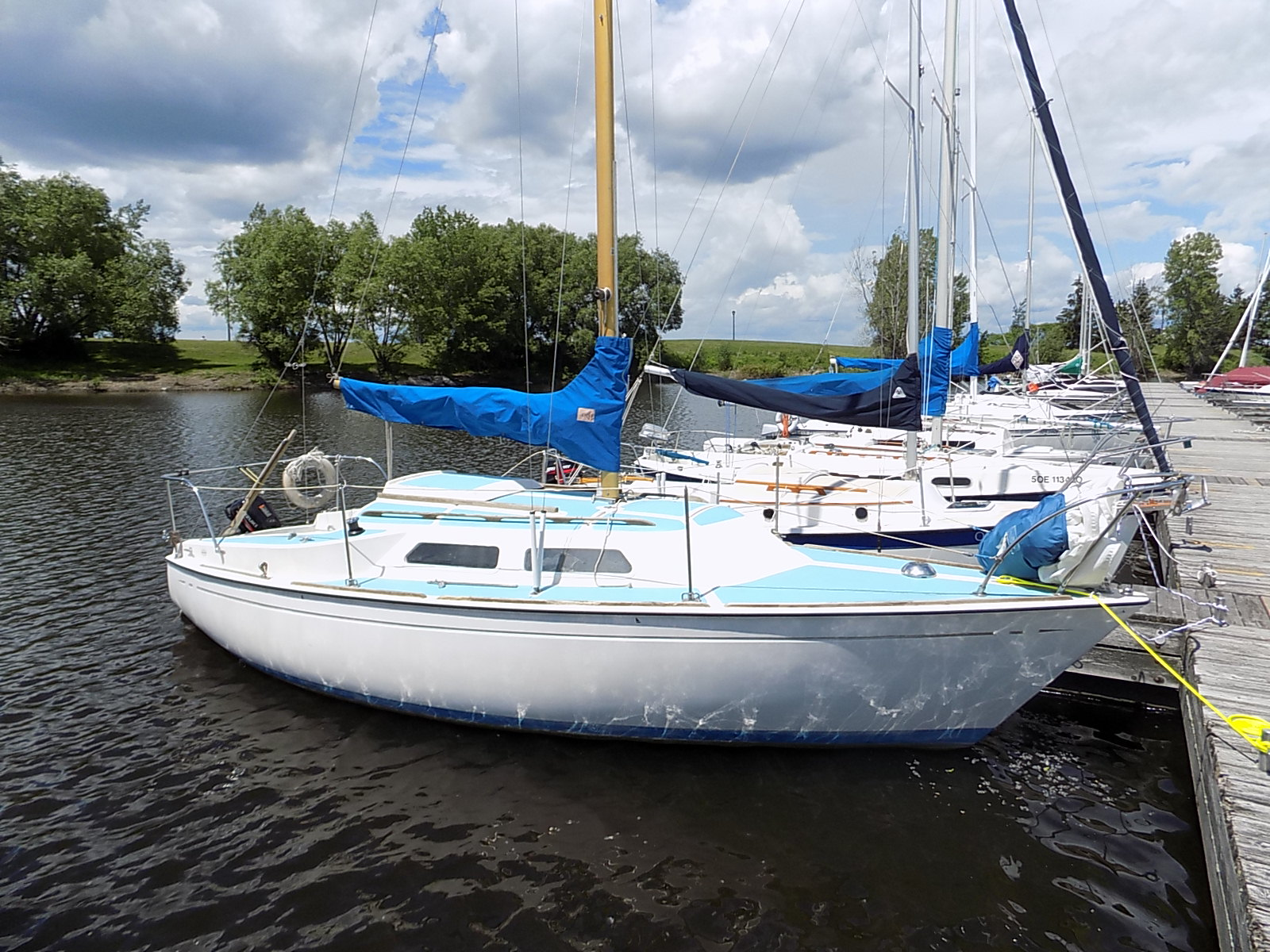 A Paceship PY23 sailboat.